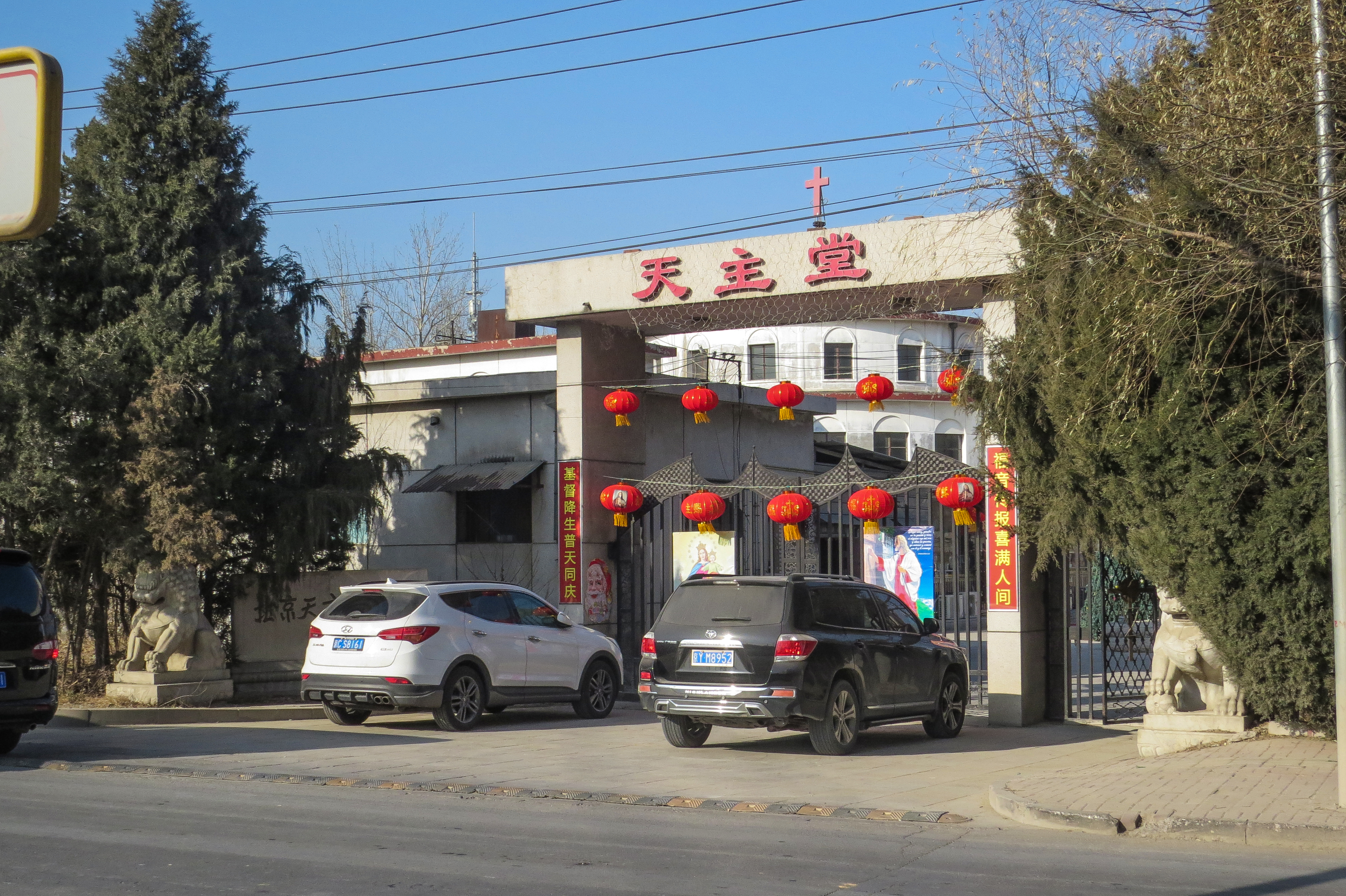 In fact, this is the gate of Beijing Catholic Cemetery. A church was established in May 2008.